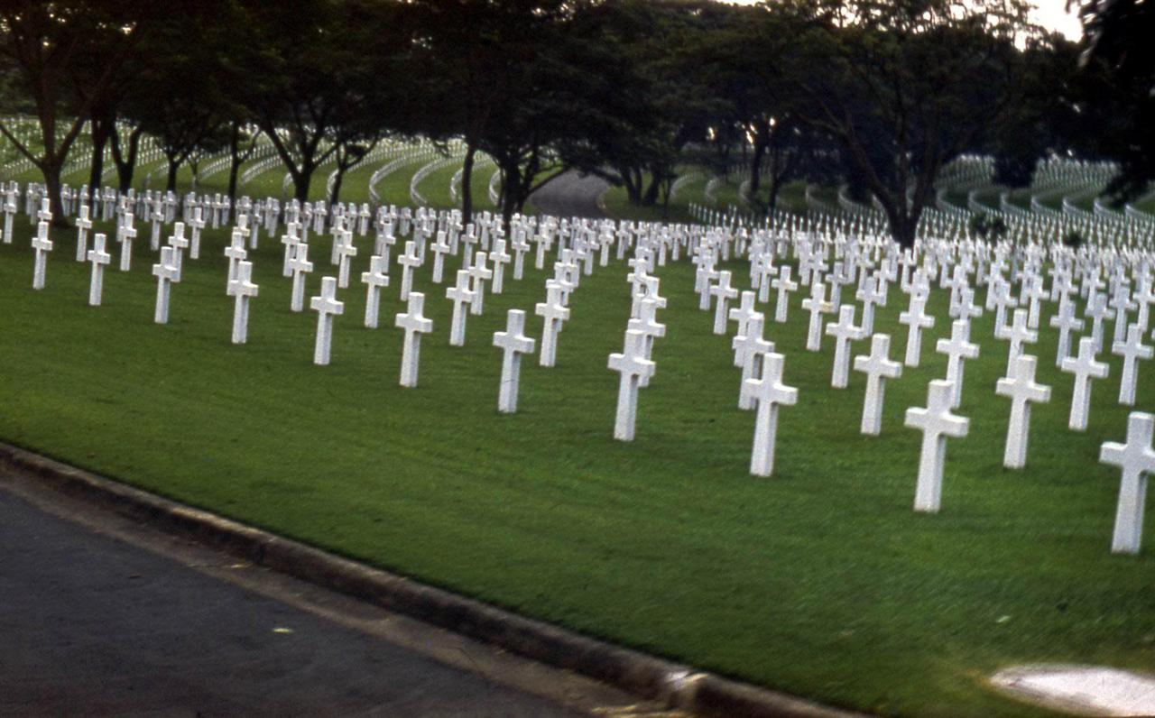 US Military Cementery